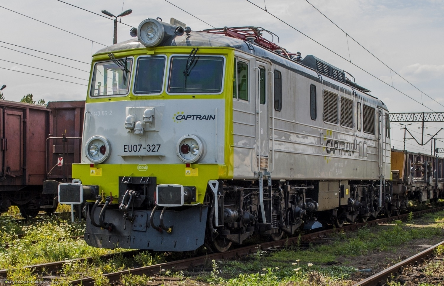 EU07 locomotive of Captrain Polska